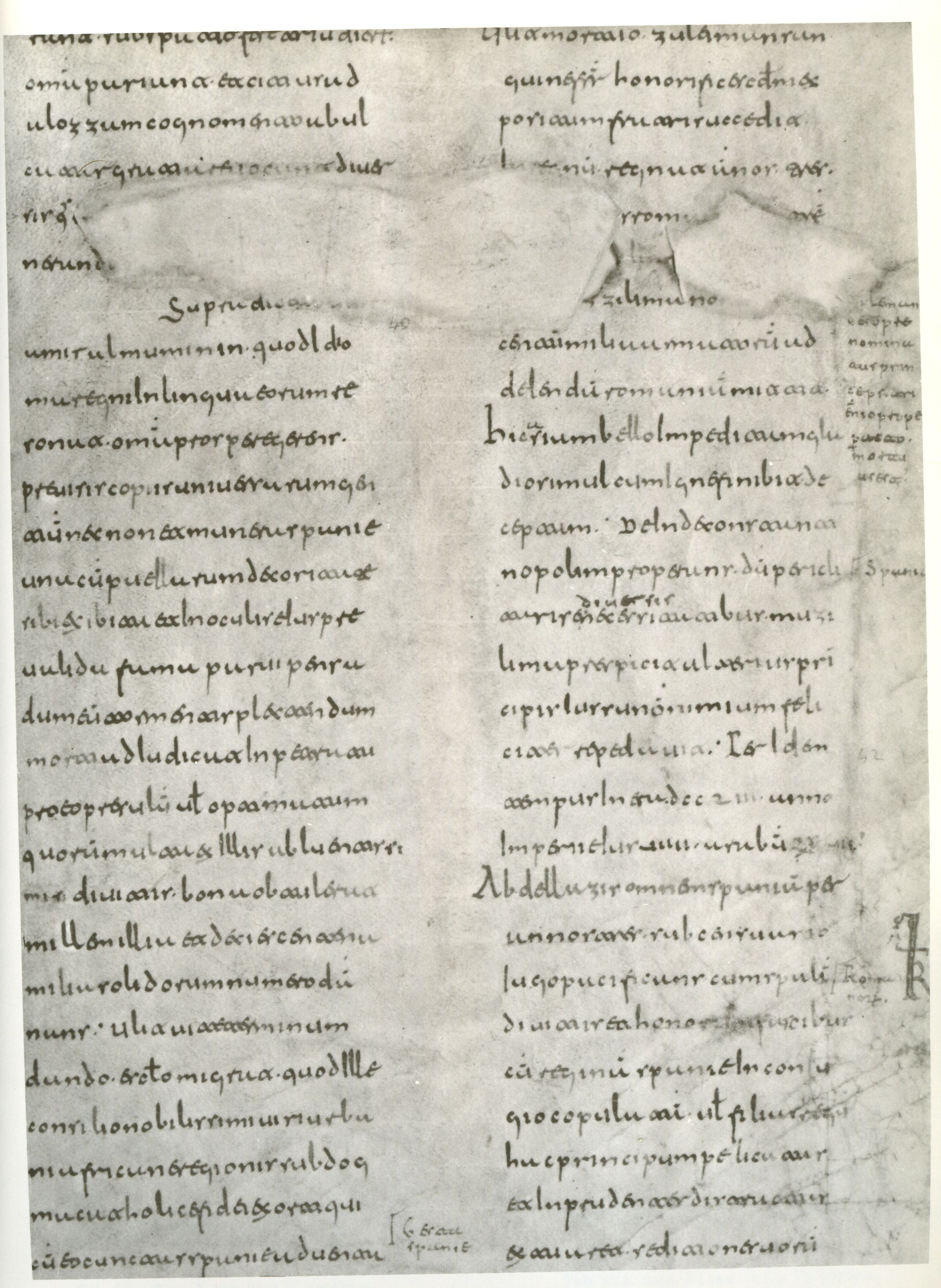 Chronicle of 754. Manuscript London, British Library, Egerton 1934, fol. 2r. Text in Visigothic Script.